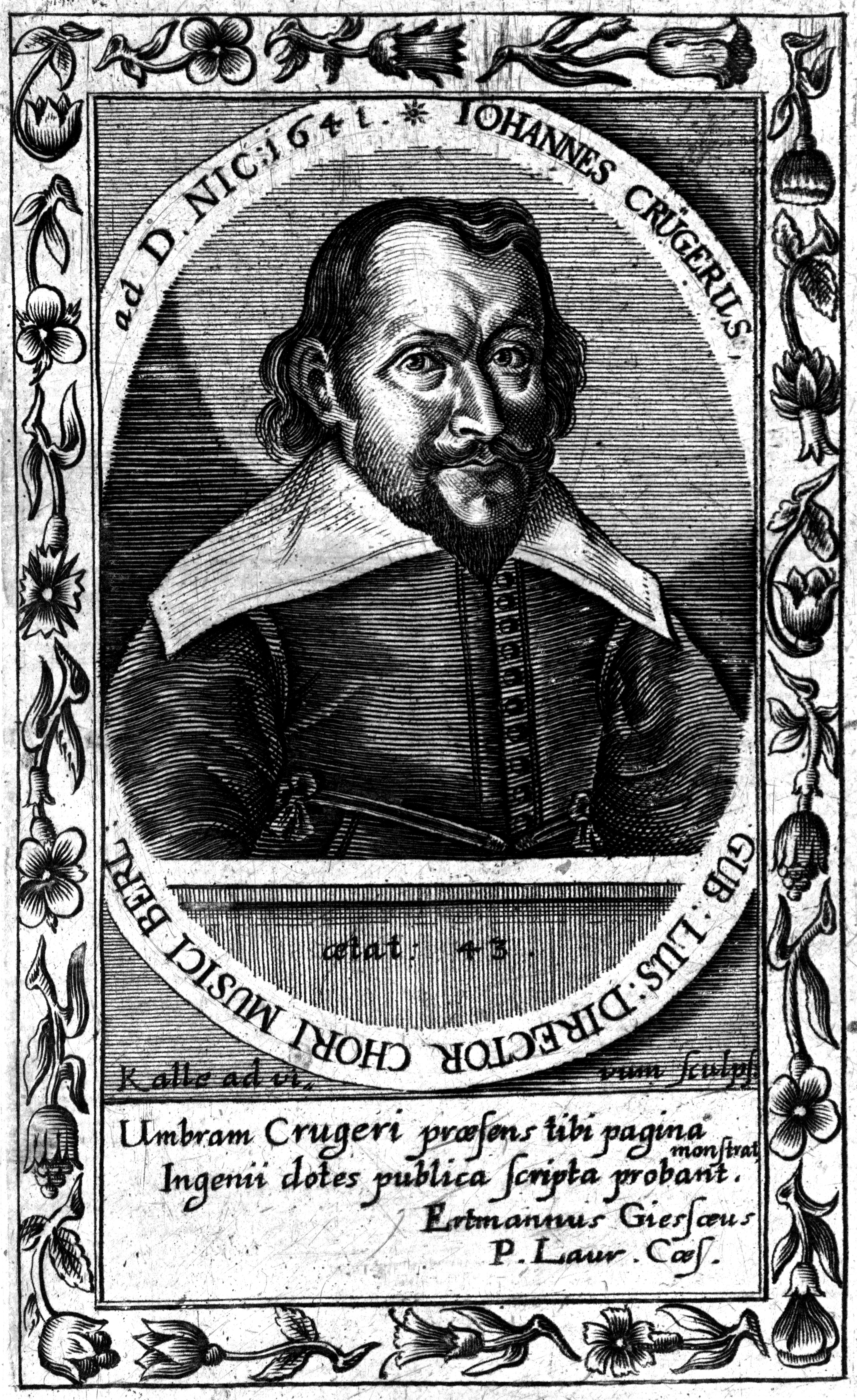 Depicted person: Johann Crüger